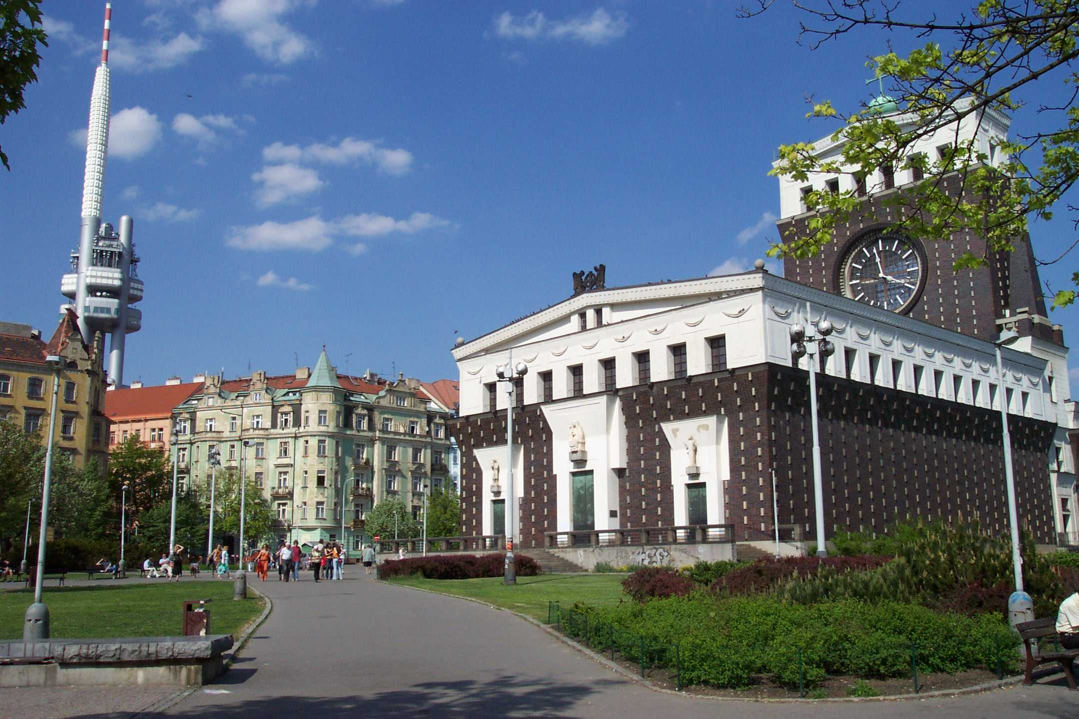 Church at Square Jiřího z Poděbrad, Prague